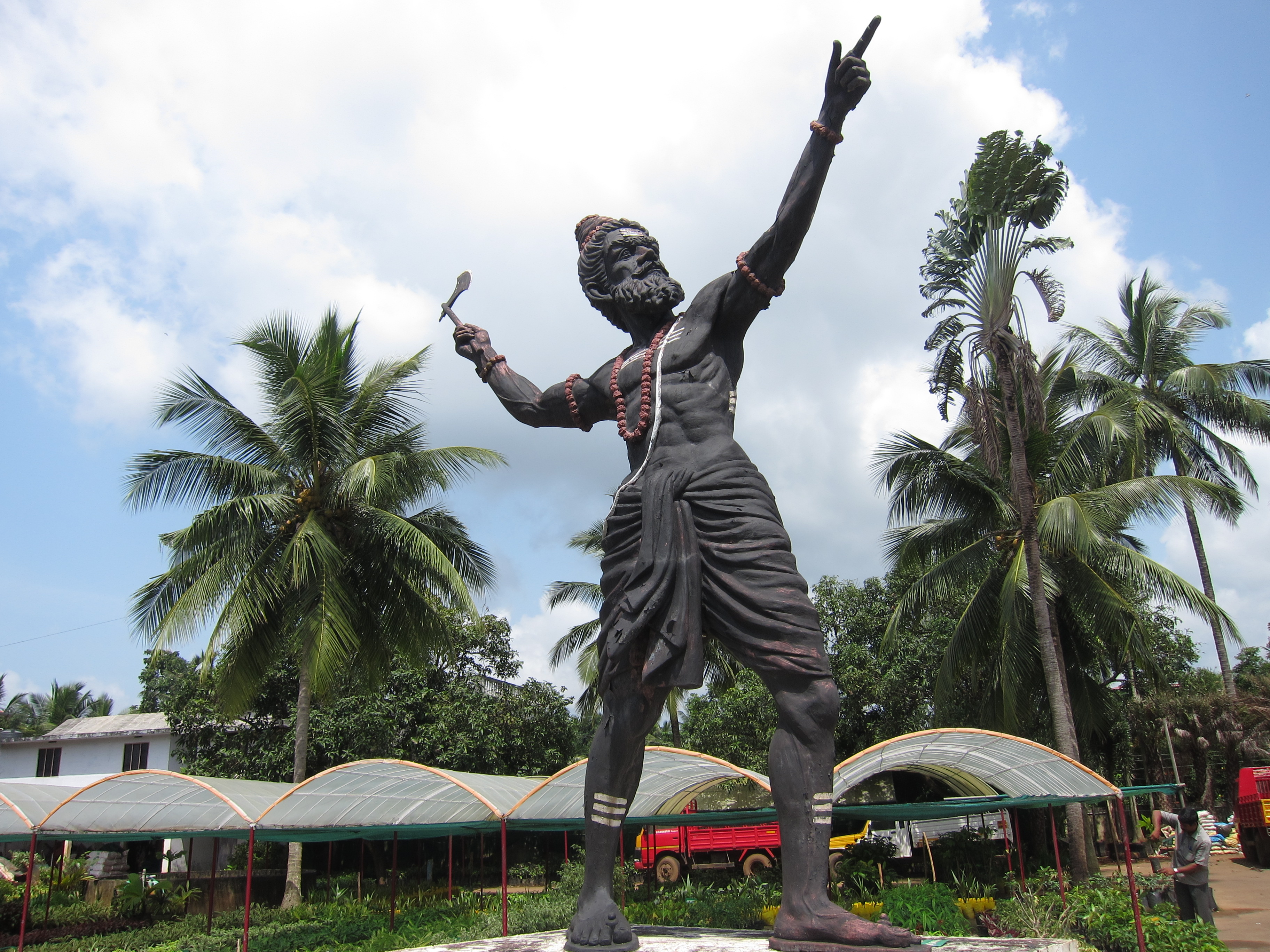 Parashurama - പരശുരാമൻ - ഒരു കലാകാരന്റെ ഭാവനയിൽ. എൻ.എച്ച് 47 വഴിയിലൂടെ പാലക്കാട് നിന്ന് എറണാകുളത്തേക്ക് വരുമ്പോൾ, മണ്ണുത്തിയിൽ, വലതുവശത്തായുള്ള ഒരു കൃഷി നേഴ്സറിയിൽ സ്ഥാപിച്ചിരിക്കുന്നതാണ്... ത്രിശൂർ ജില്ല